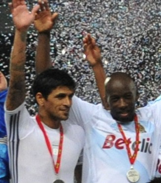 Lucho González and Souleymane Diawara winning 2011 Trophée des Champions with Olympique de Marseille